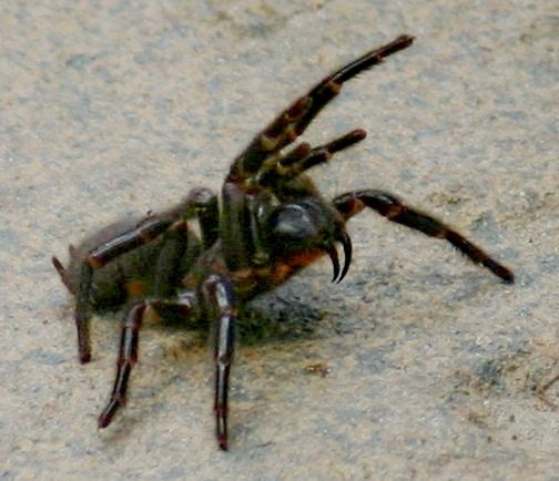 Female Sydney funnel-web Spider photographed November 2004 at the Reptile Park at Gosford.